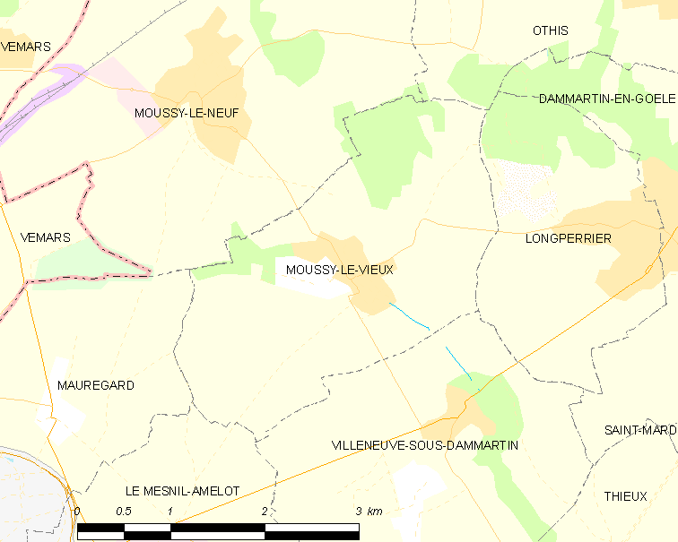 Map of French municipality Moussy-le-Vieux